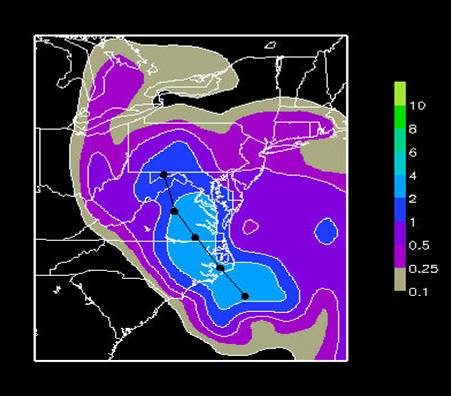 Hurricane Research Division GFS forecast for Isabel (2003)